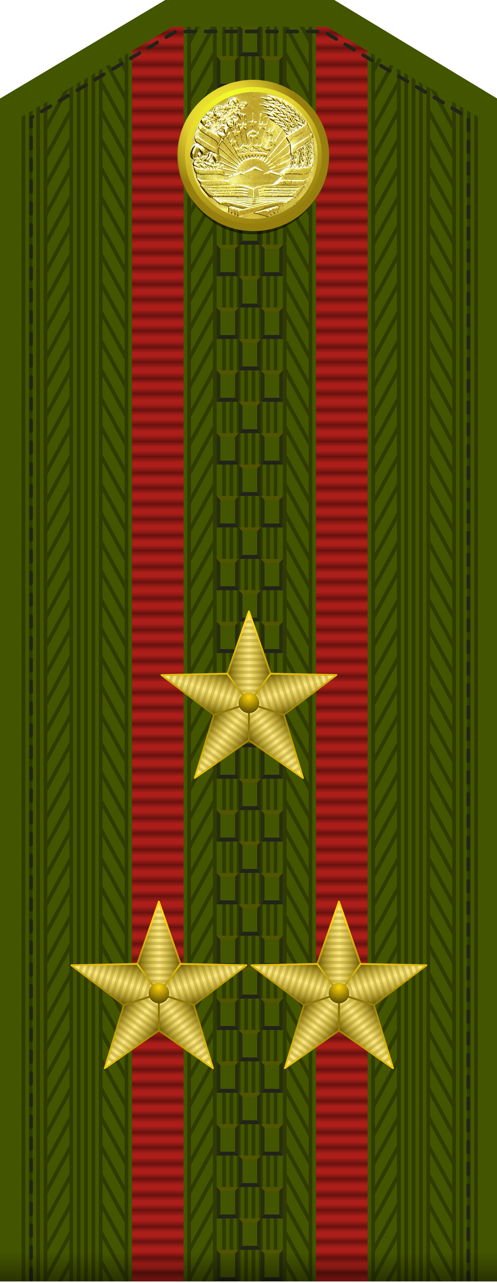 Тоҷикӣ: Rank insignia of Colonel for the Tajikistan Army